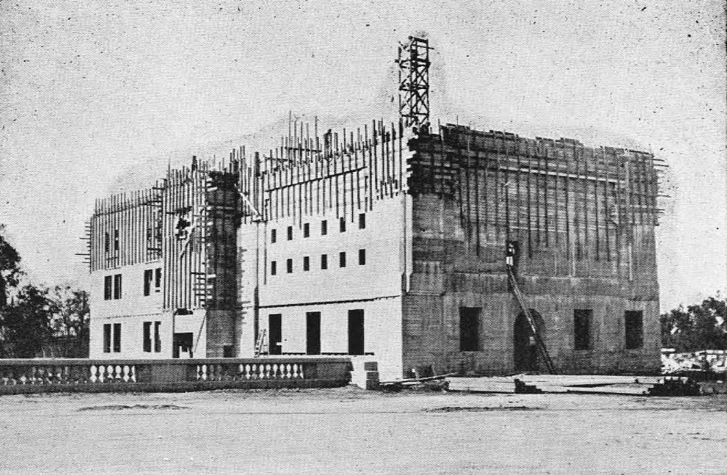 Bridge Physical Laboratory at the California Institute of Technology in 1921